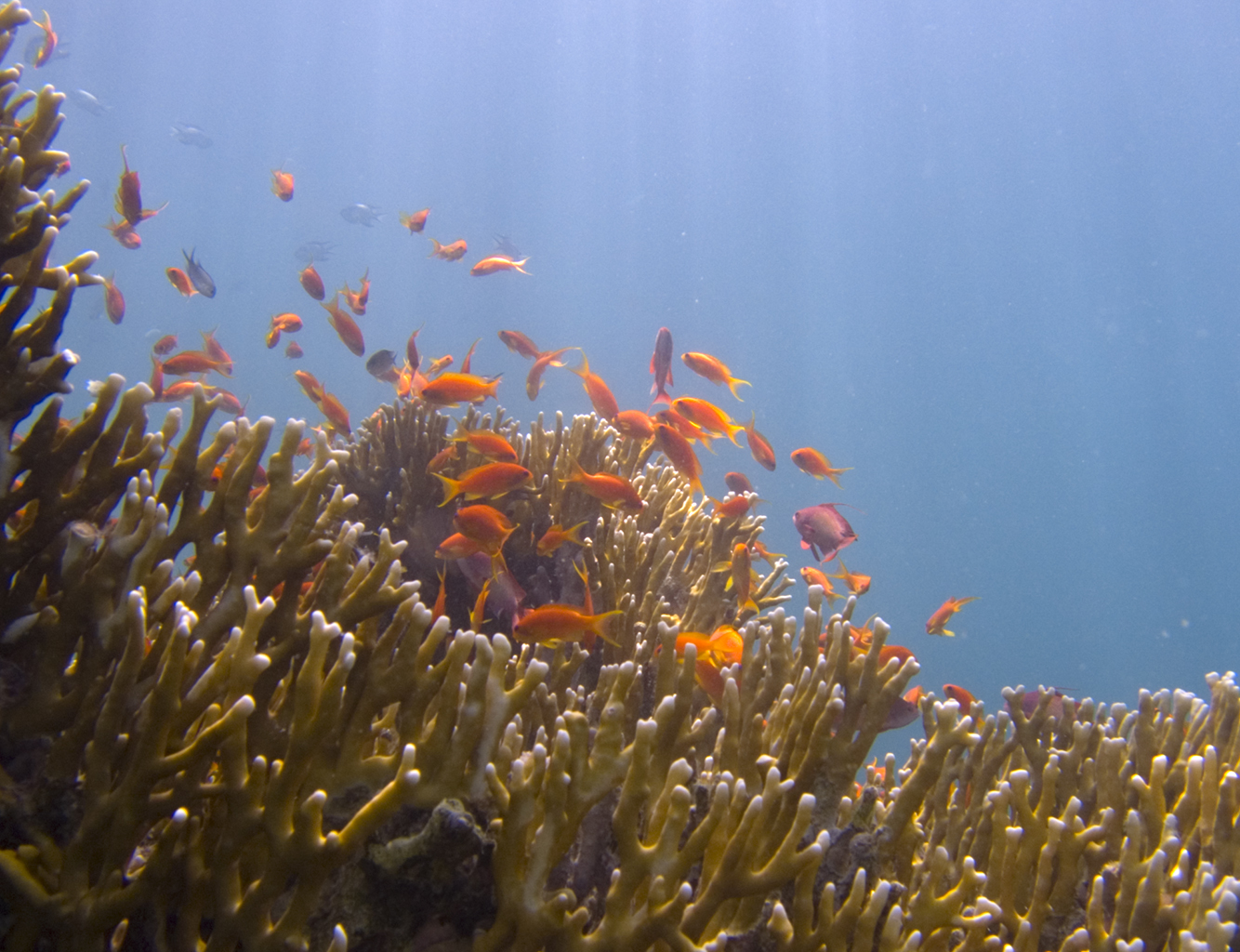 Millepora sp. and Pseudanthias sp.